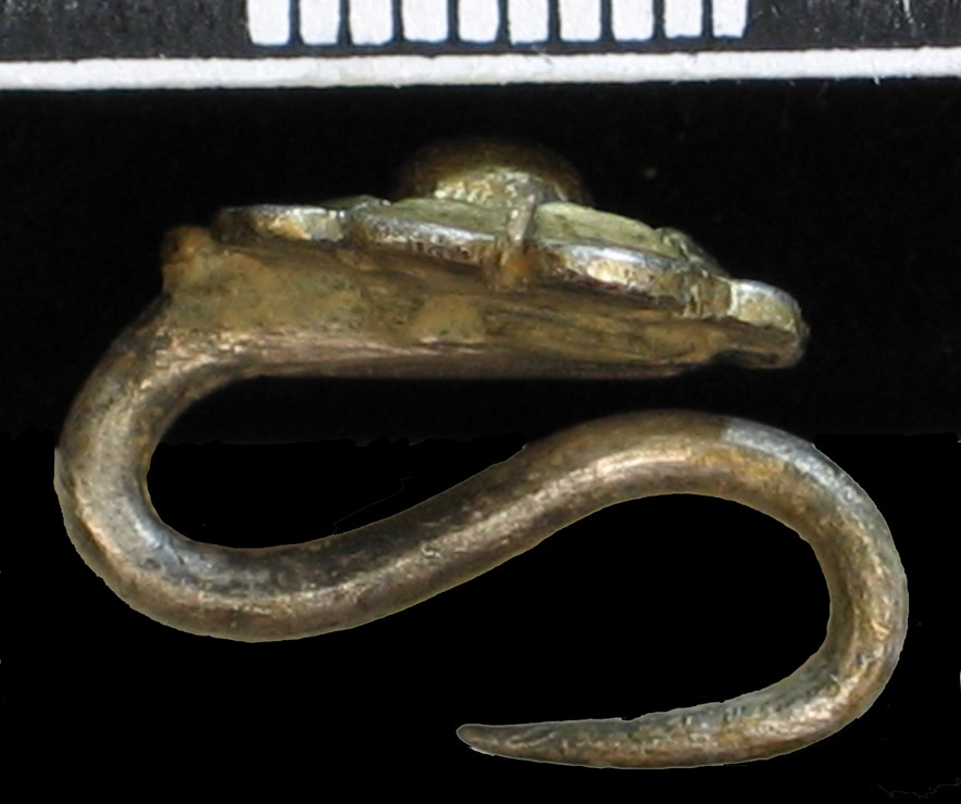 Silver gilt cap-hook. A nine-petalled flower with a central boss from which radiate closely spaced grooves. The outer edge of the petals are angled downwards. The plate is flat on the reverse with a soldered silver hook which is bent back on itself to form an s-shape. The front of the plate is gilded. 16th century silver gilt cap-hooks are illustrated in Gaimster et al (2002, 170 - 171, fig.13 - 15) although none are a close parallel for this example.